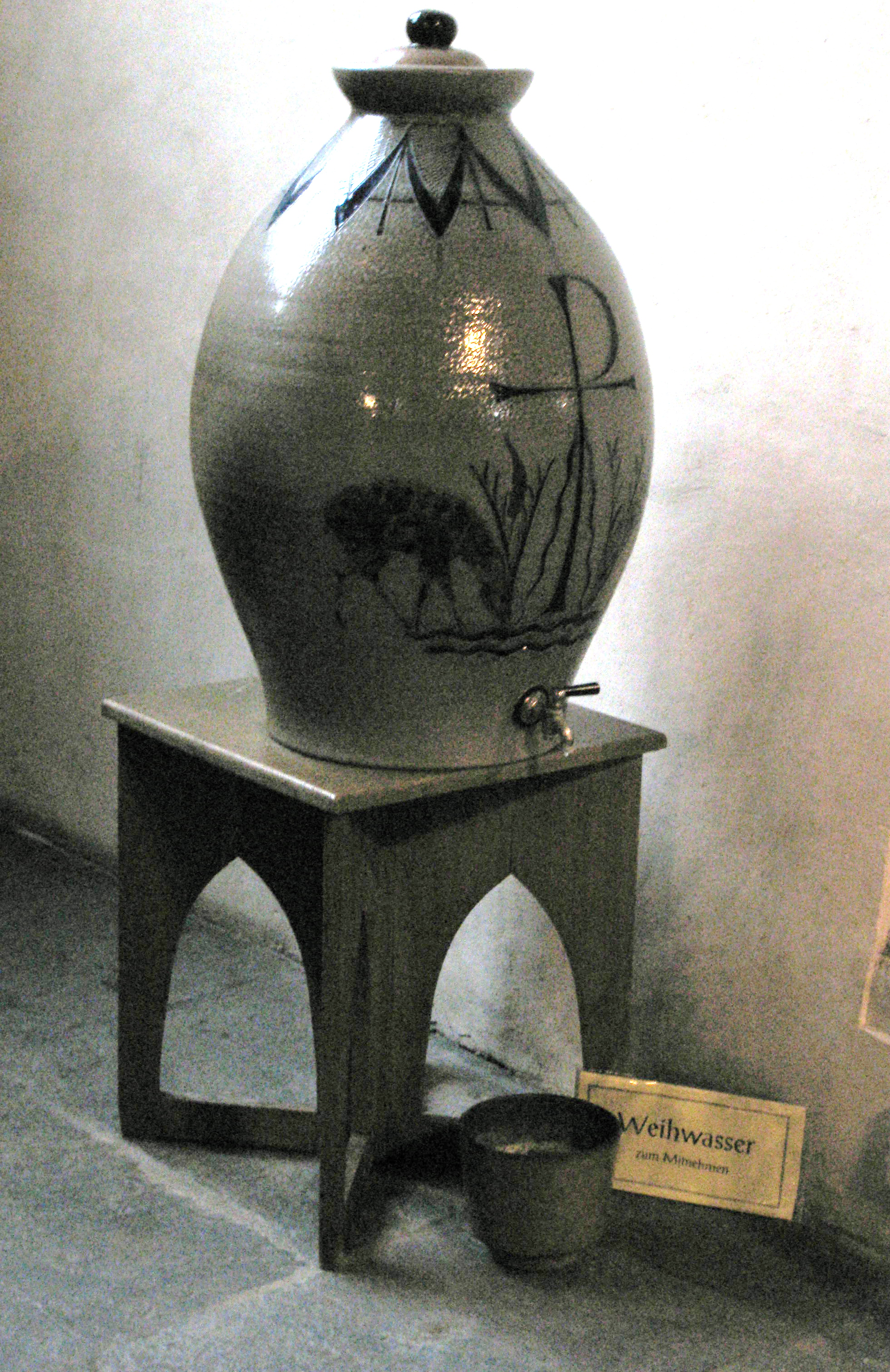 Cask of holy water for home use, with tap. Sign reads "Holy water to take away". Limburg cathedral, Germany.